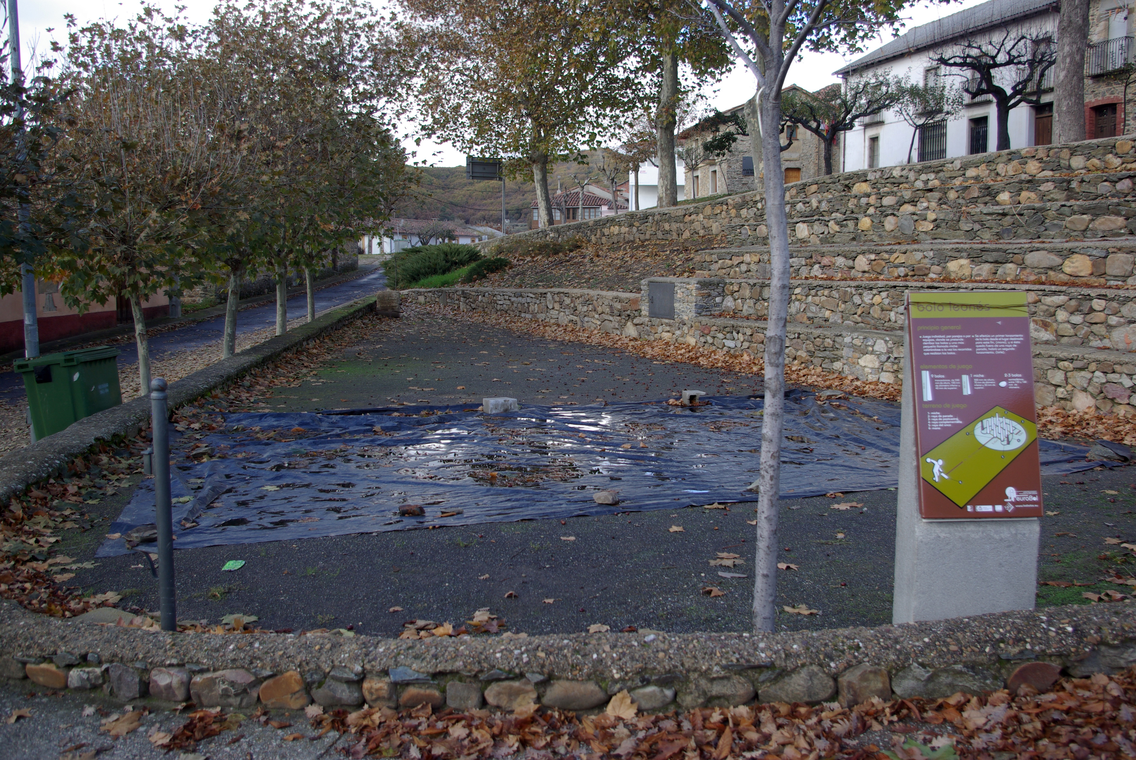 Traditional skittles in Riello (León, Spain).